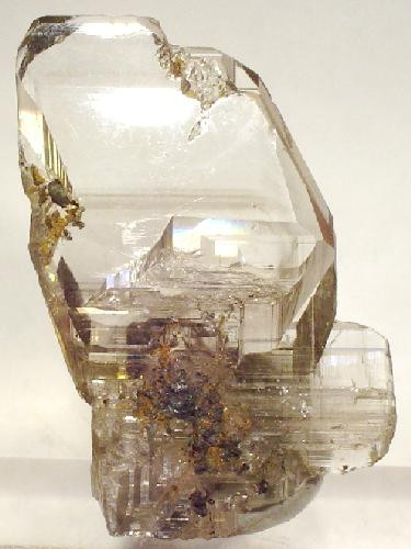 Cerussite Locality: Tsumeb Mine (Tsumcorp Mine), Tsumeb, Otjikoto (Oshikoto) Region, Namibia (Locality at ) A SUPREMELY GLASSY and beautiful, cyclically-twinned cerussite crystal from Tsumeb. The face of the large crystal is water-clear, while, end-on, the twinned crystal has sherry or smoky overtones. A couple of super-trivial wilburs and very minor contacting at the base on one side are definitely negligible. Excellent material from the collection of the noted South African collector, Rob Smith. 3.9 x 2.8 x 1.1 cm